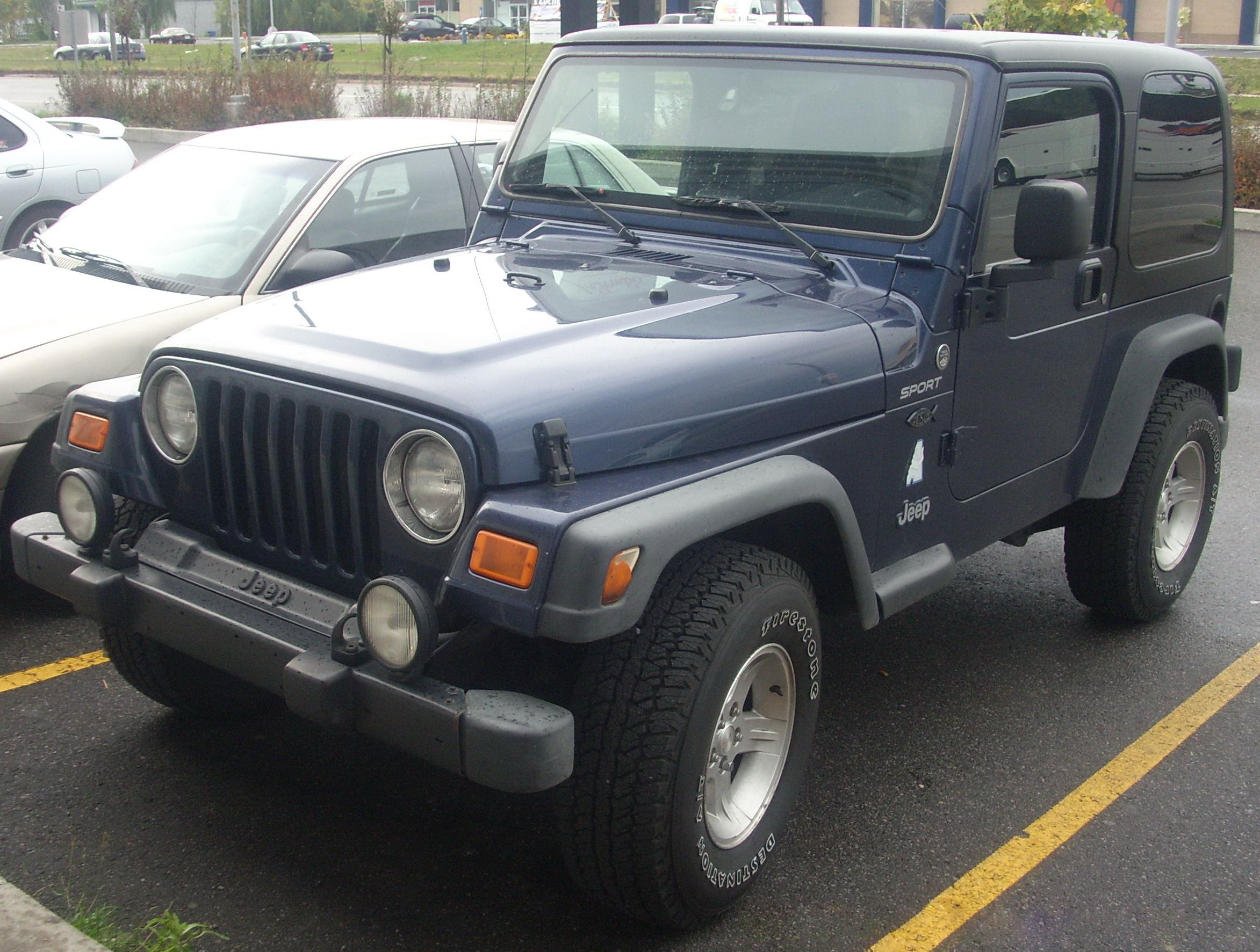 2004-2006 Jeep TJ/Wrangler photographed in Vaudreuil-Dorion, Quebec, Canada.